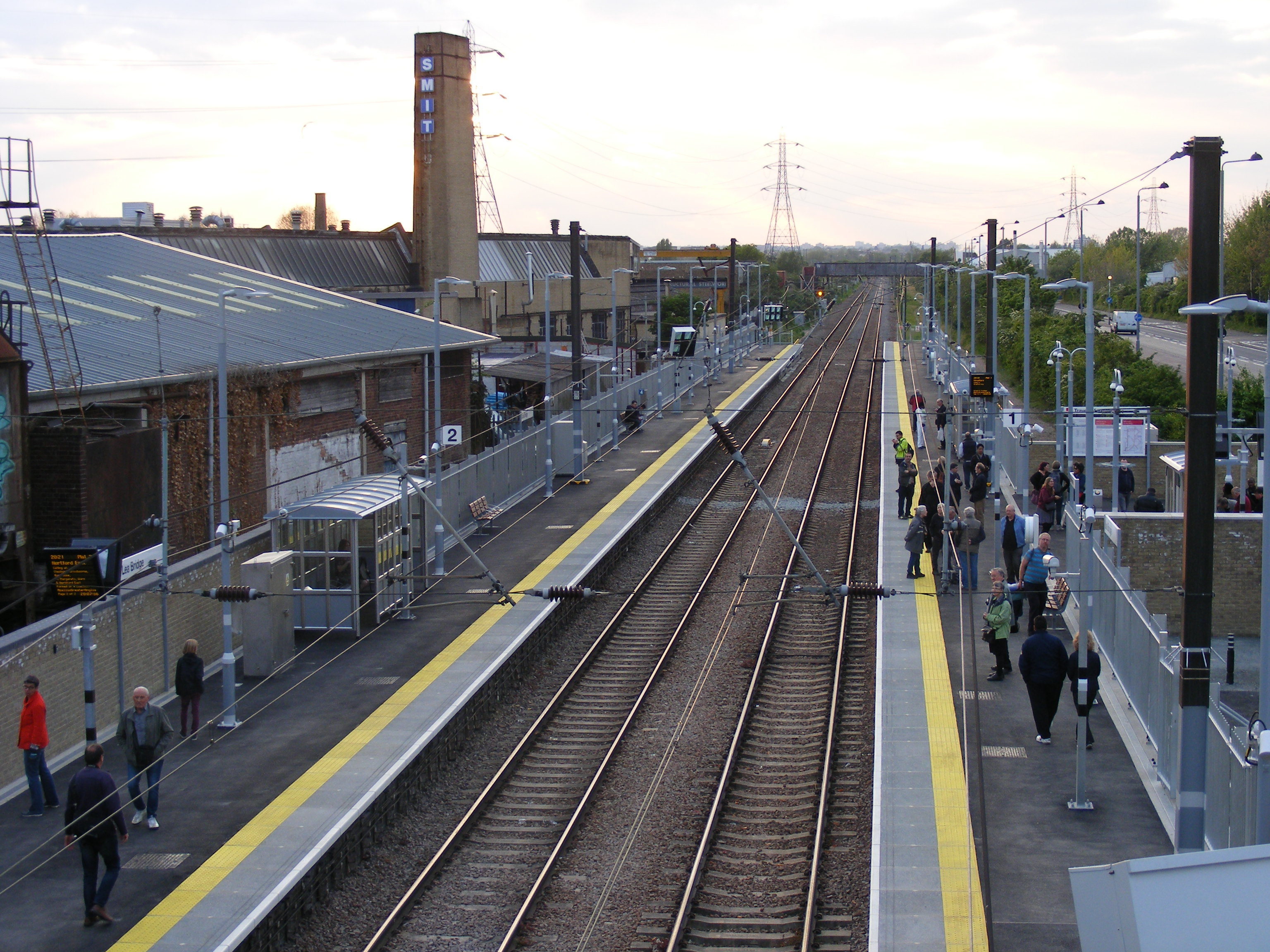 Lea Bridge Station re-opening after 31 years